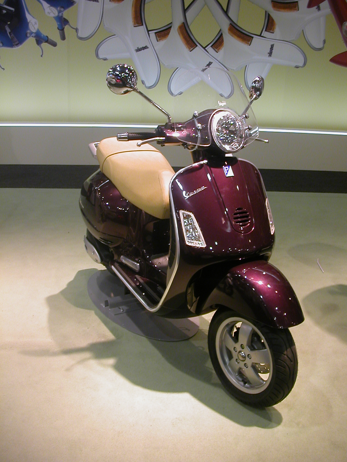 EICMA 2005 Milan moto show